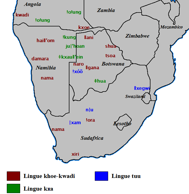 Distribution of major khoisan languages in southern Africa (italian). This map includes also some extinct languages.